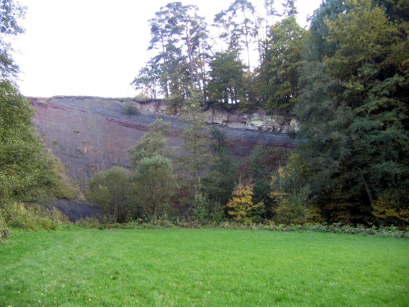 The Bodenmühlwand, a steep river-bluff in the valley of the Red Main, southeast of Bayreuth. Bavaria, Germany